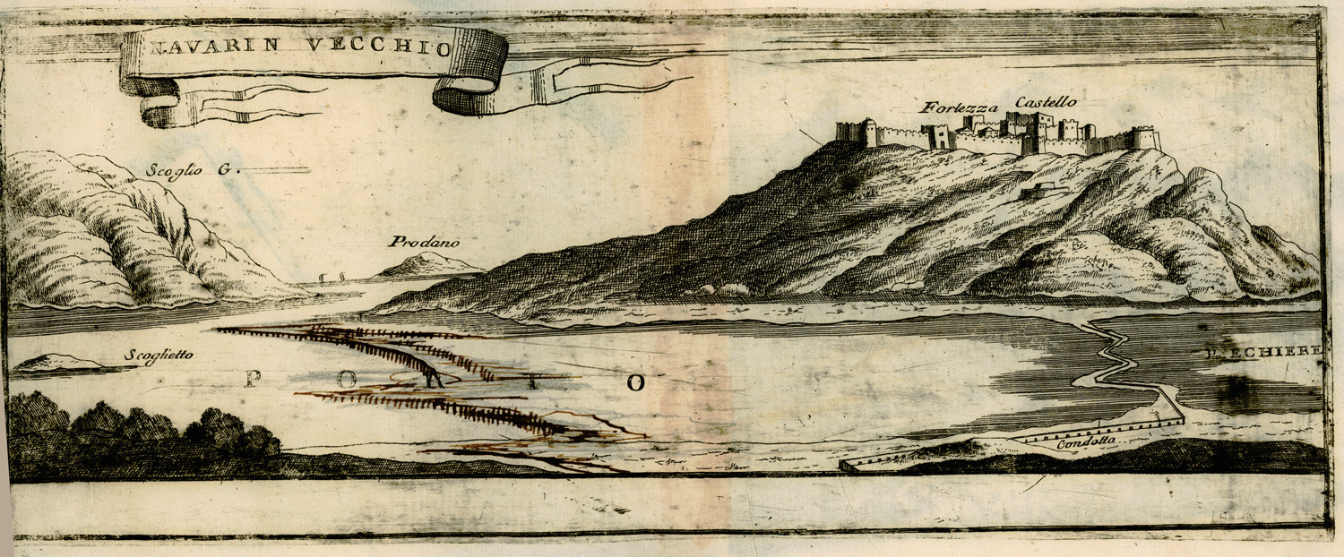 Vincenzo Coronelli - Repubblica di Venezia p. IV. Citta, Fortezze, ed altri Luoghi principali dell' Albania, Epiro e Livadia, e particolarmente i posseduti da Veneti descritti e delineati dal p. Coronelli, Venice, 1688.